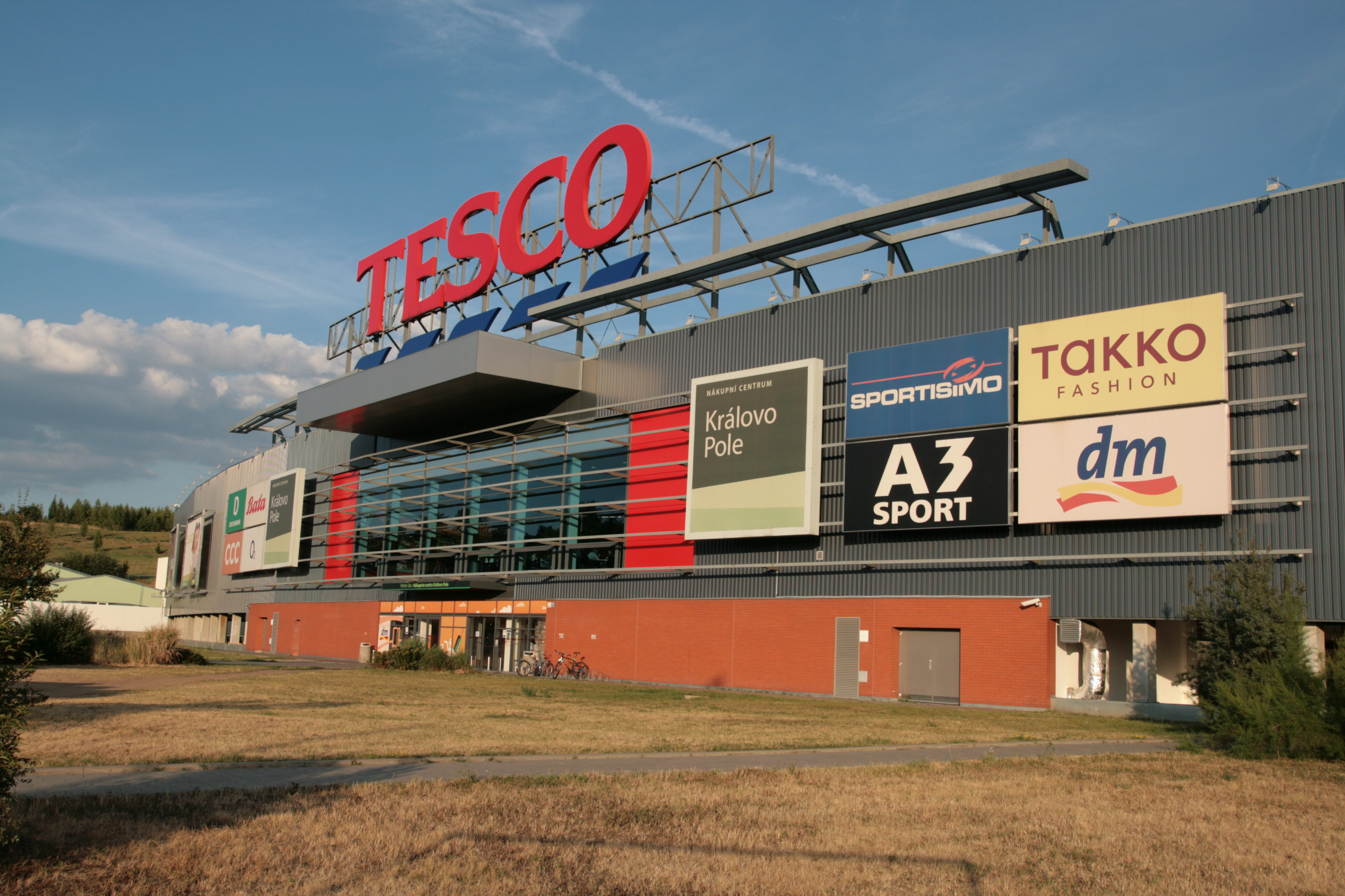 Shopping centre Královo Pole in Brno, Czech Republic.